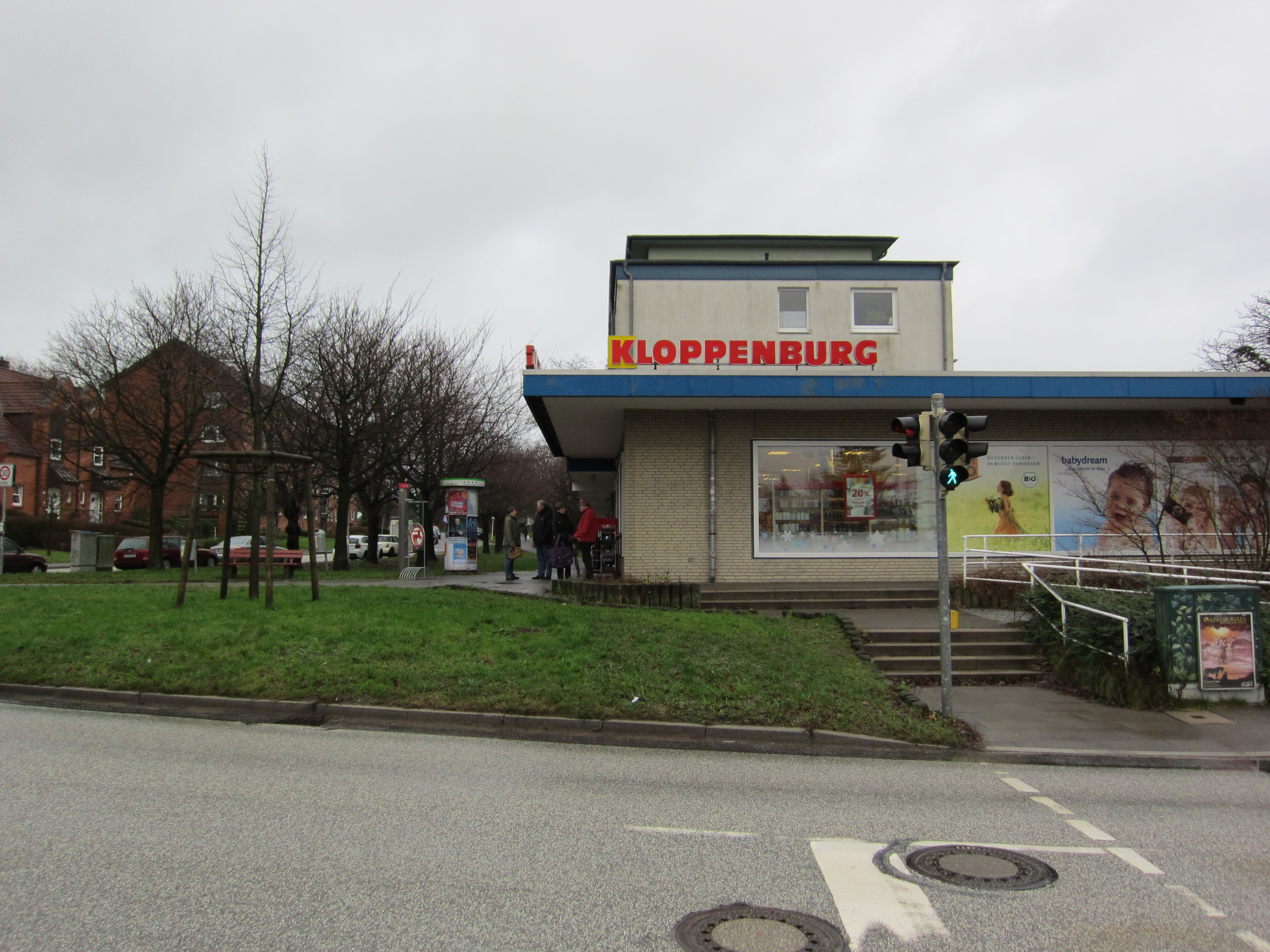 Kloppenburg, Kiel-Holtenau